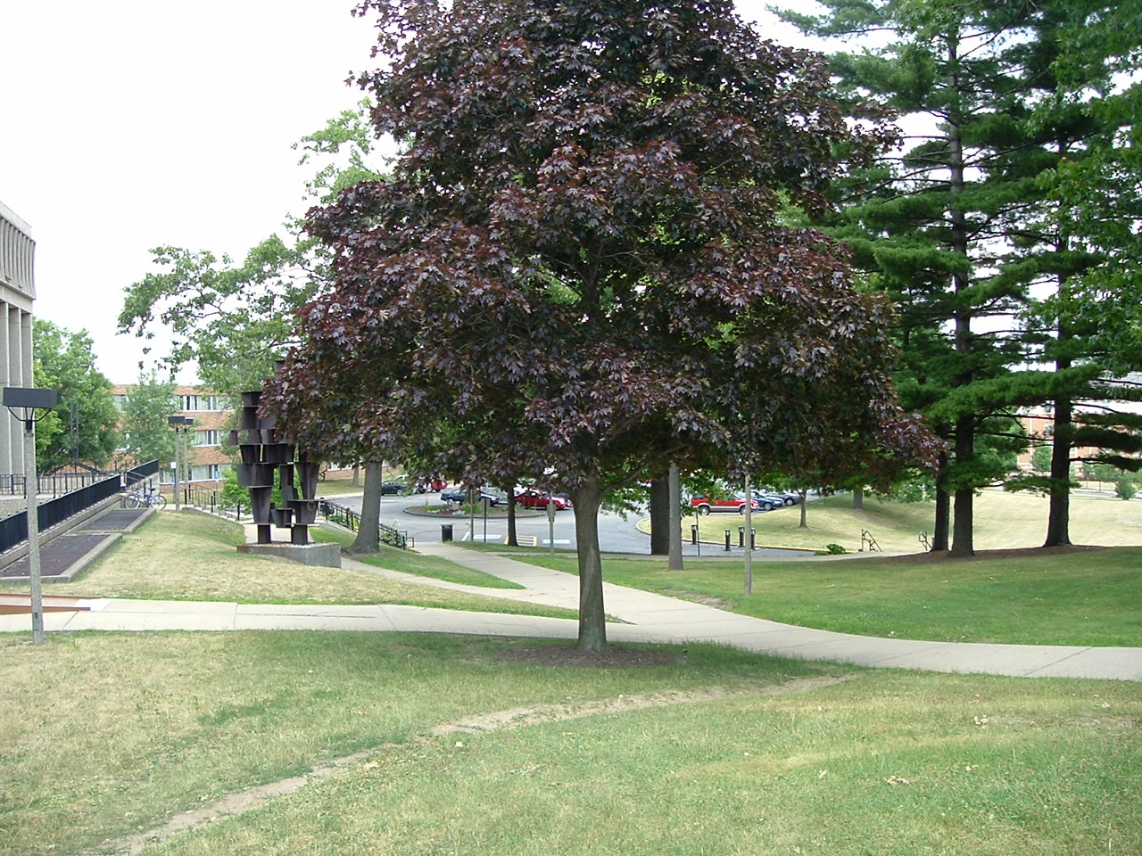 Photo taken from the perspective of where the Ohio National Guard soldiers stood when they opened fire on the students. Four of the trees shown did not exist during the 1970 shootings, and were planted in memorial of each slain student. The Kent State May 4th Task Force has moved to have these trees transplanted to another area, as the trees block the original perspective of the National Guardsmen. Don Drumm sculpture can be seen toward left of middle ground. To the right and farther back can be seen some of the lighted bollards designating where Jeffrey Miller was slain.